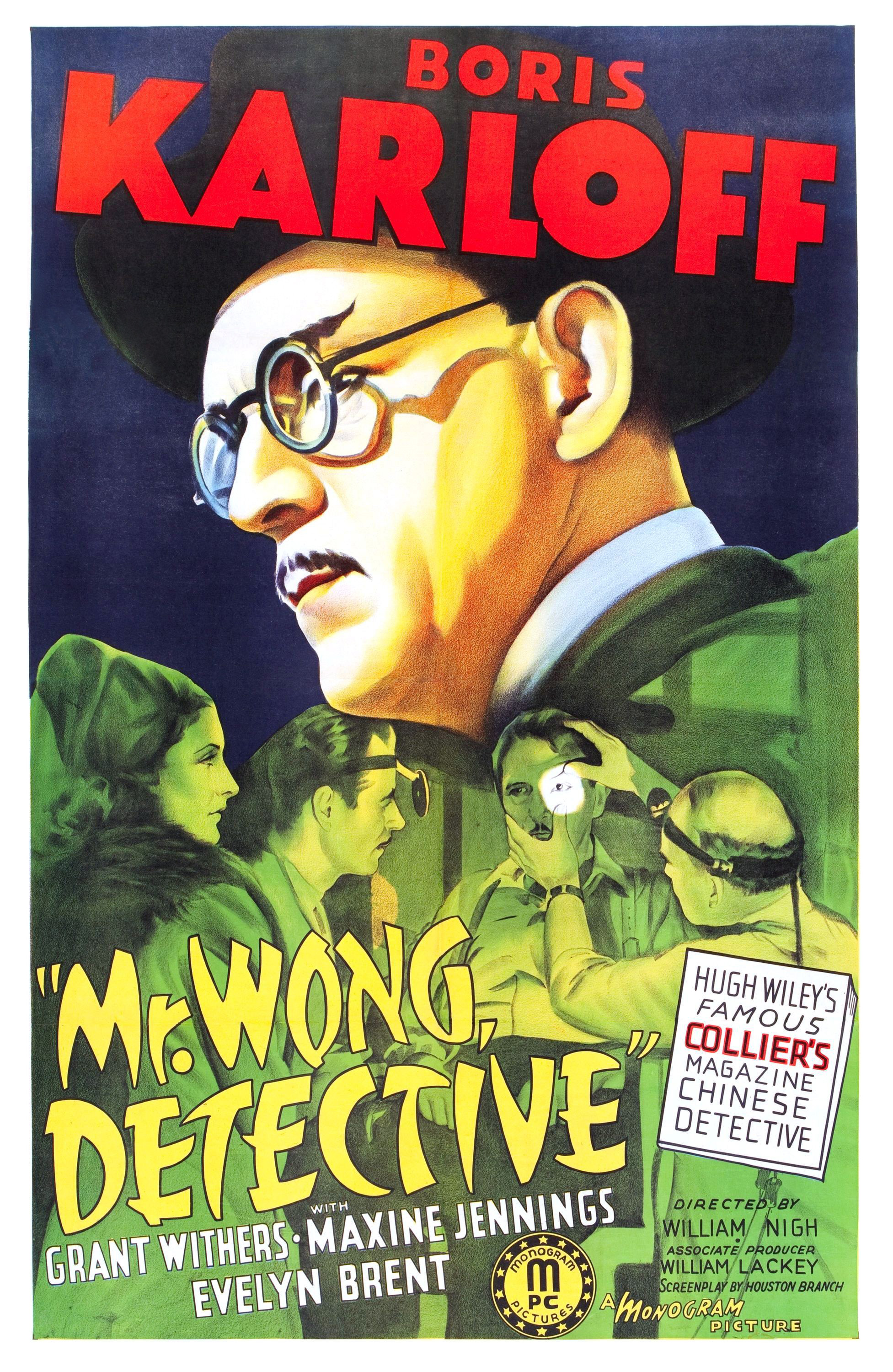 Poster for the American crime film Mr. Wong, Detective (1938). There are no copyright markings pertaining to the image as can be seen in the links above.